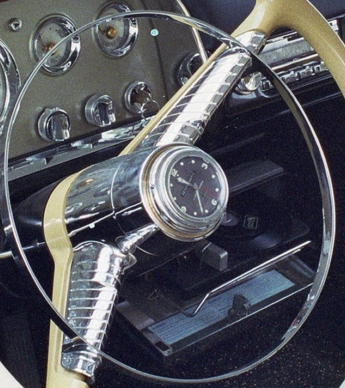 DeSotoMatic Clock "@V@"